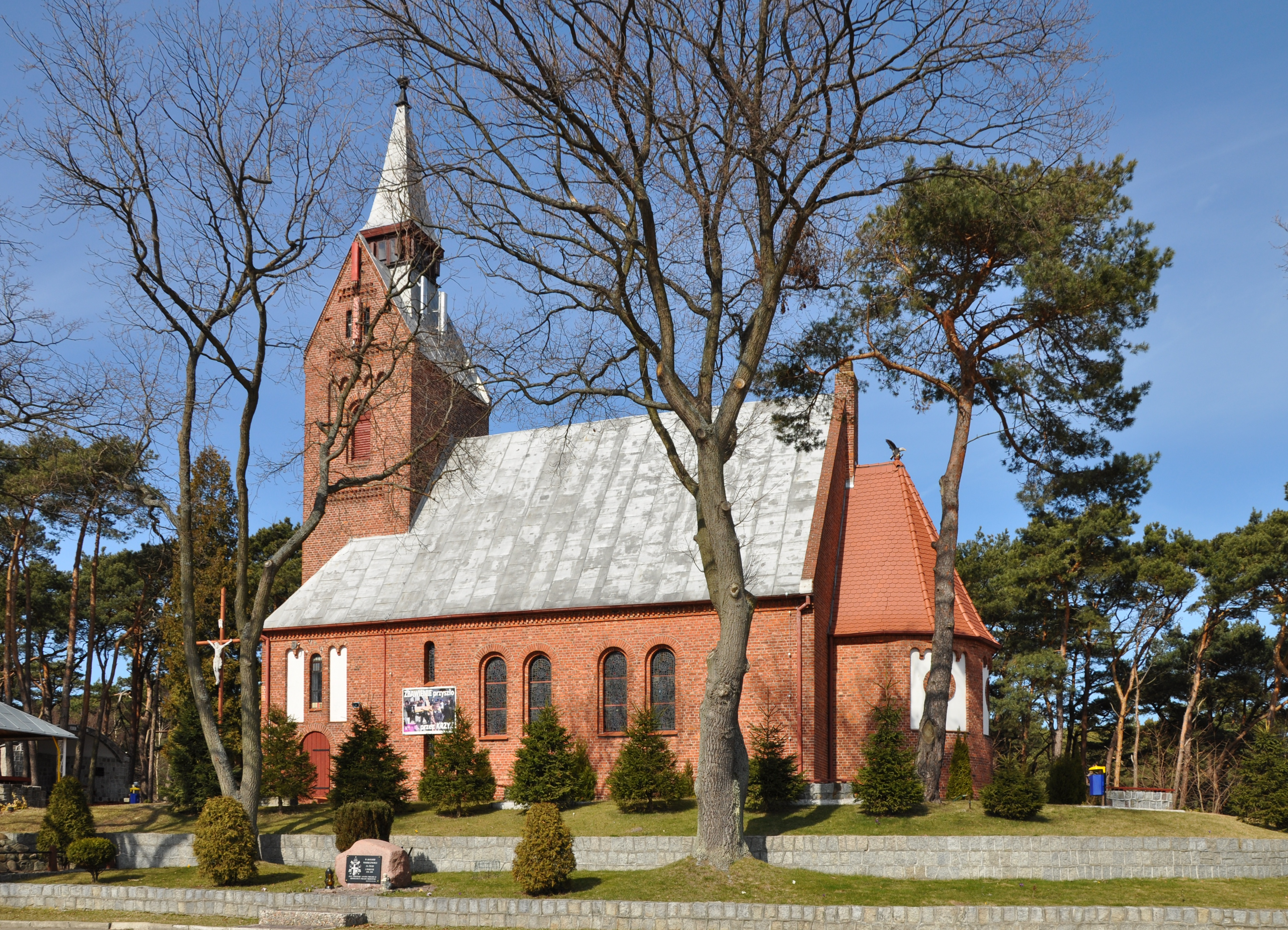 St. Peter and Paul Roman Catholic Church in Mrzeżyno